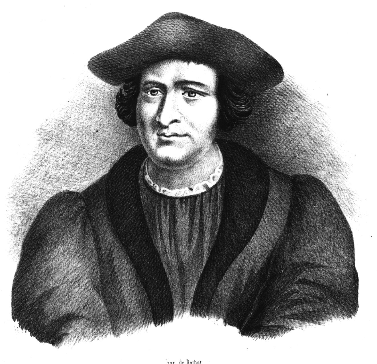 French physician Martin Akakia I (1497-1551). Portrait by Louis Barbat (1795-1870) or Pierre-Michel Barbat (1821-1886).